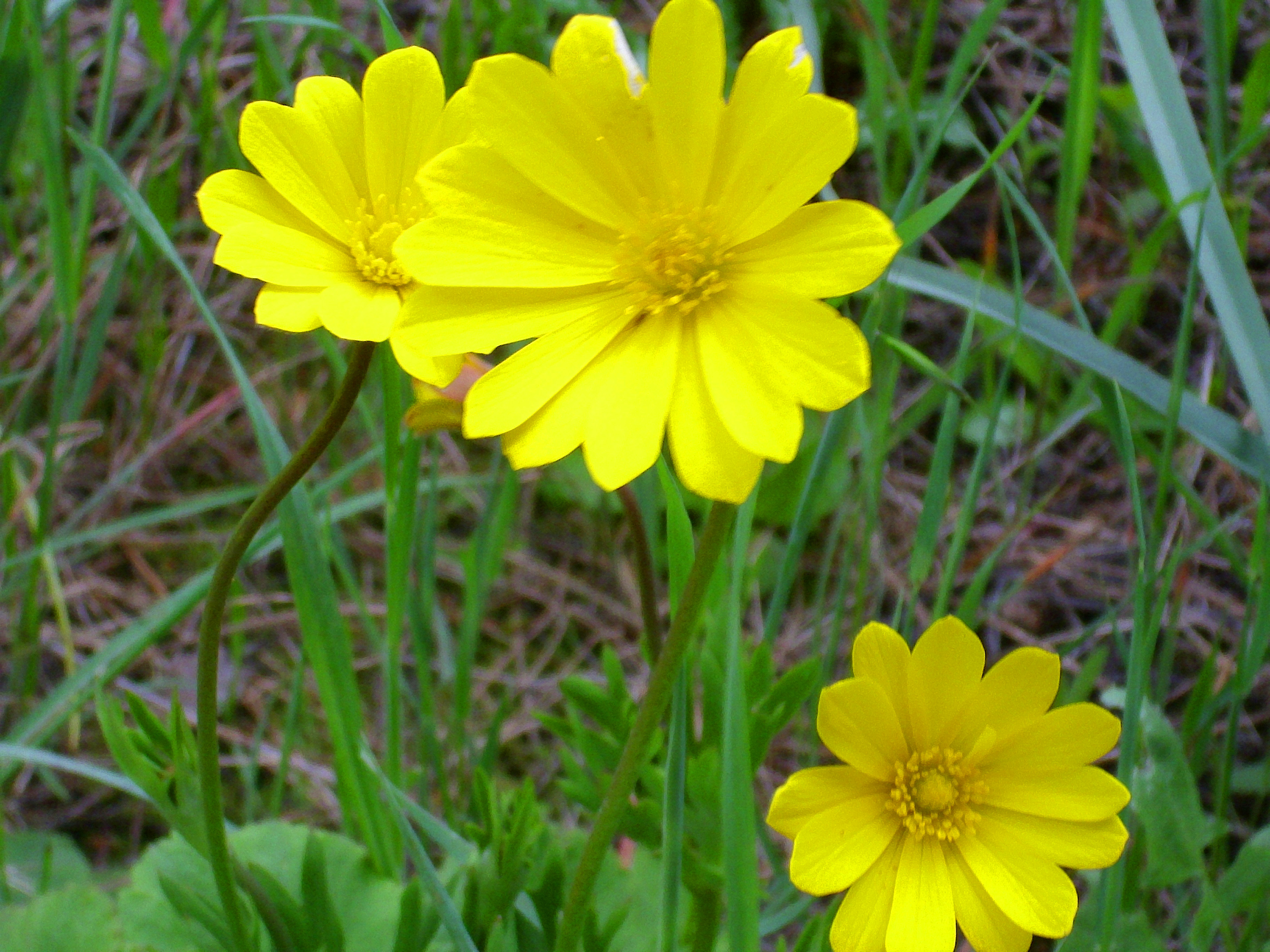 Anemone palmata close up, Sierra Madrona, Spain